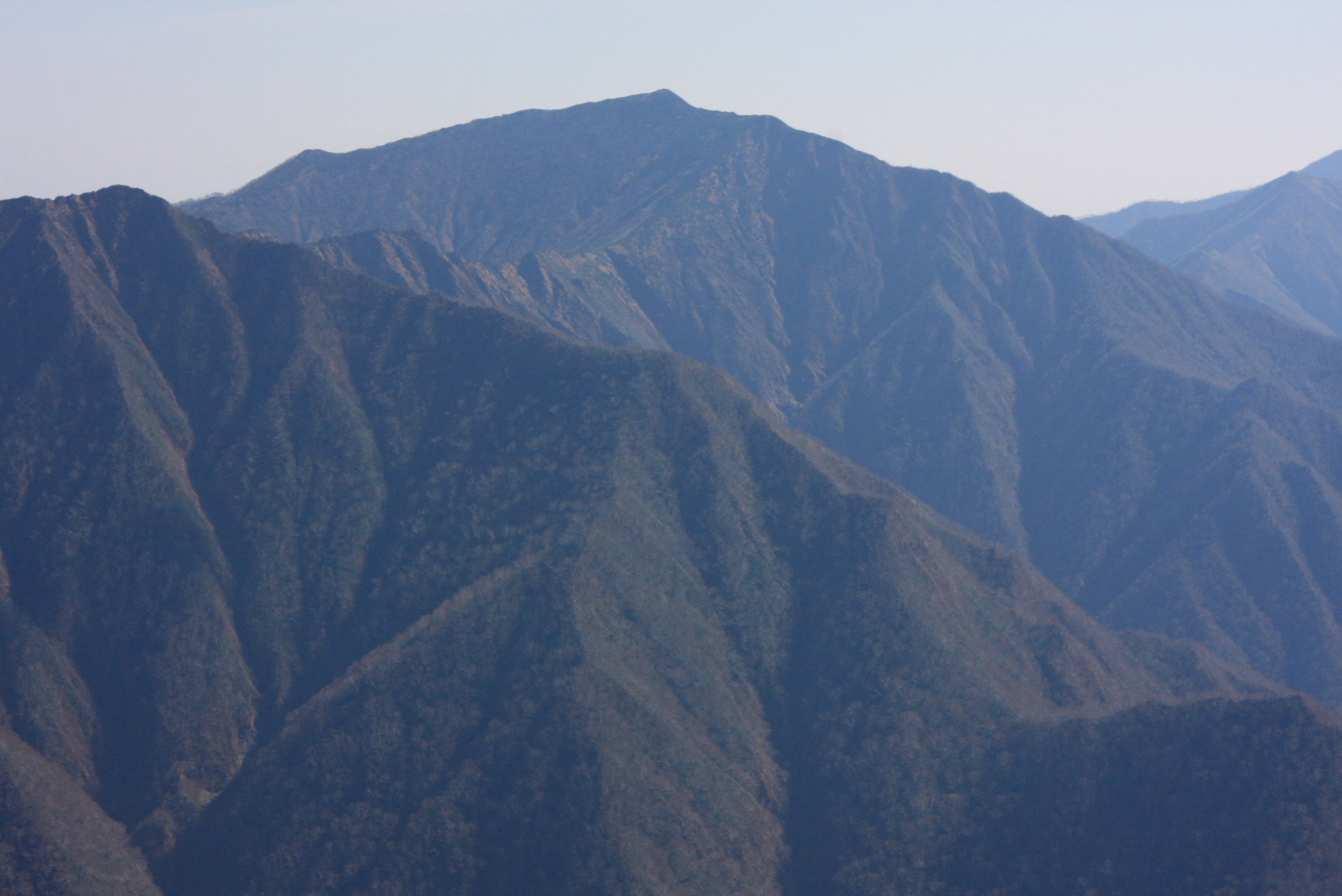 Pirikanupuri (Mount Pirika) as seen from Mount Kamui